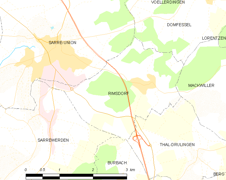 Map of French municipality